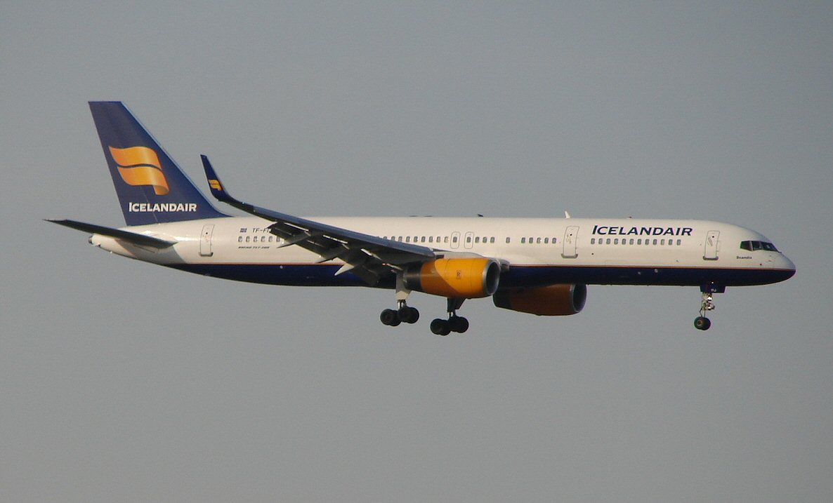 Finally caught ICELANDAIR, the last trip up to the cities we left after the A-330's arrival, only to see the Icelandair 757 a mere 2 minutes after we left... finally got a shot of her! and what a beauty!